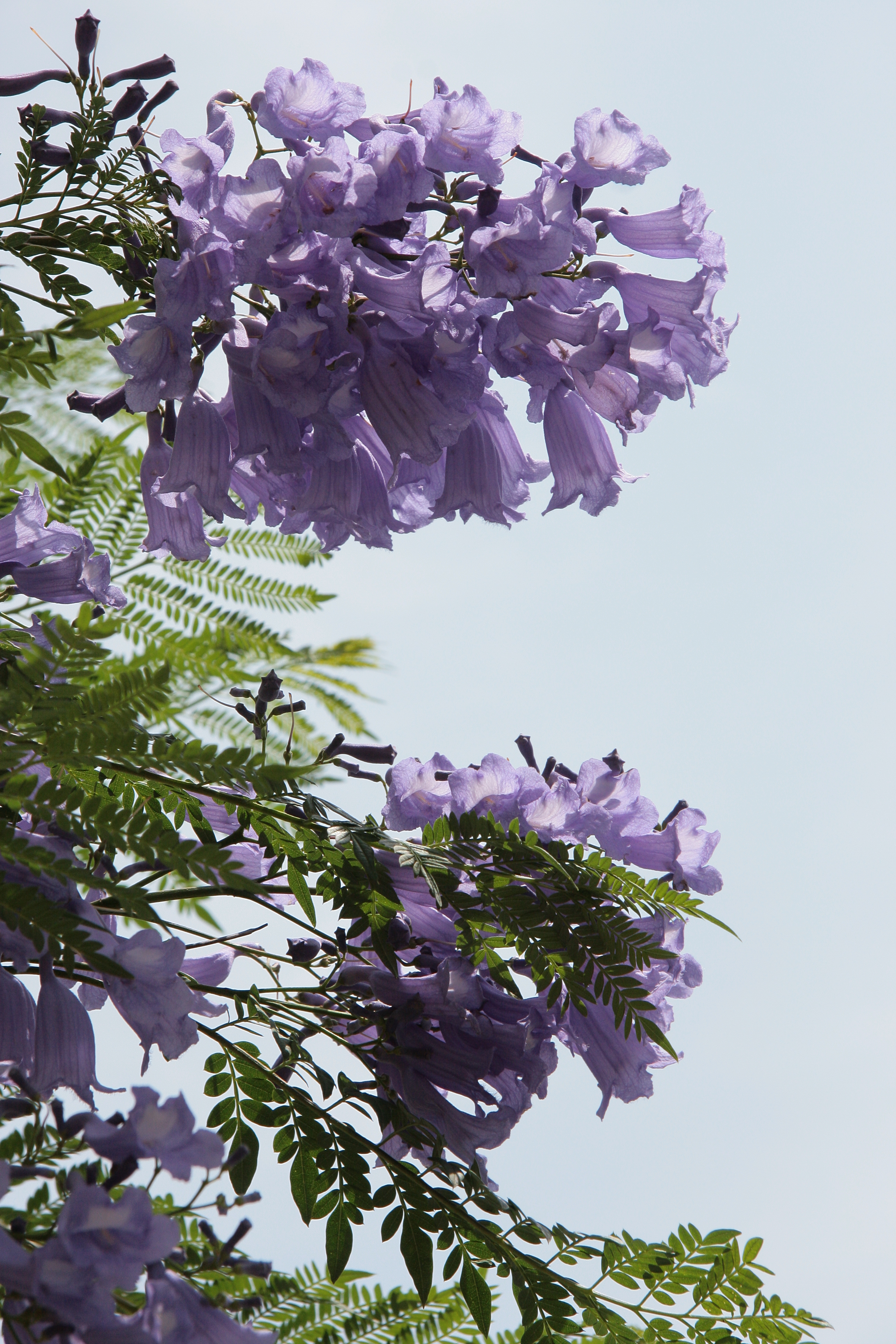 trees are in bloom in Cyprus